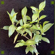 Henna Lawsonia inermis plant